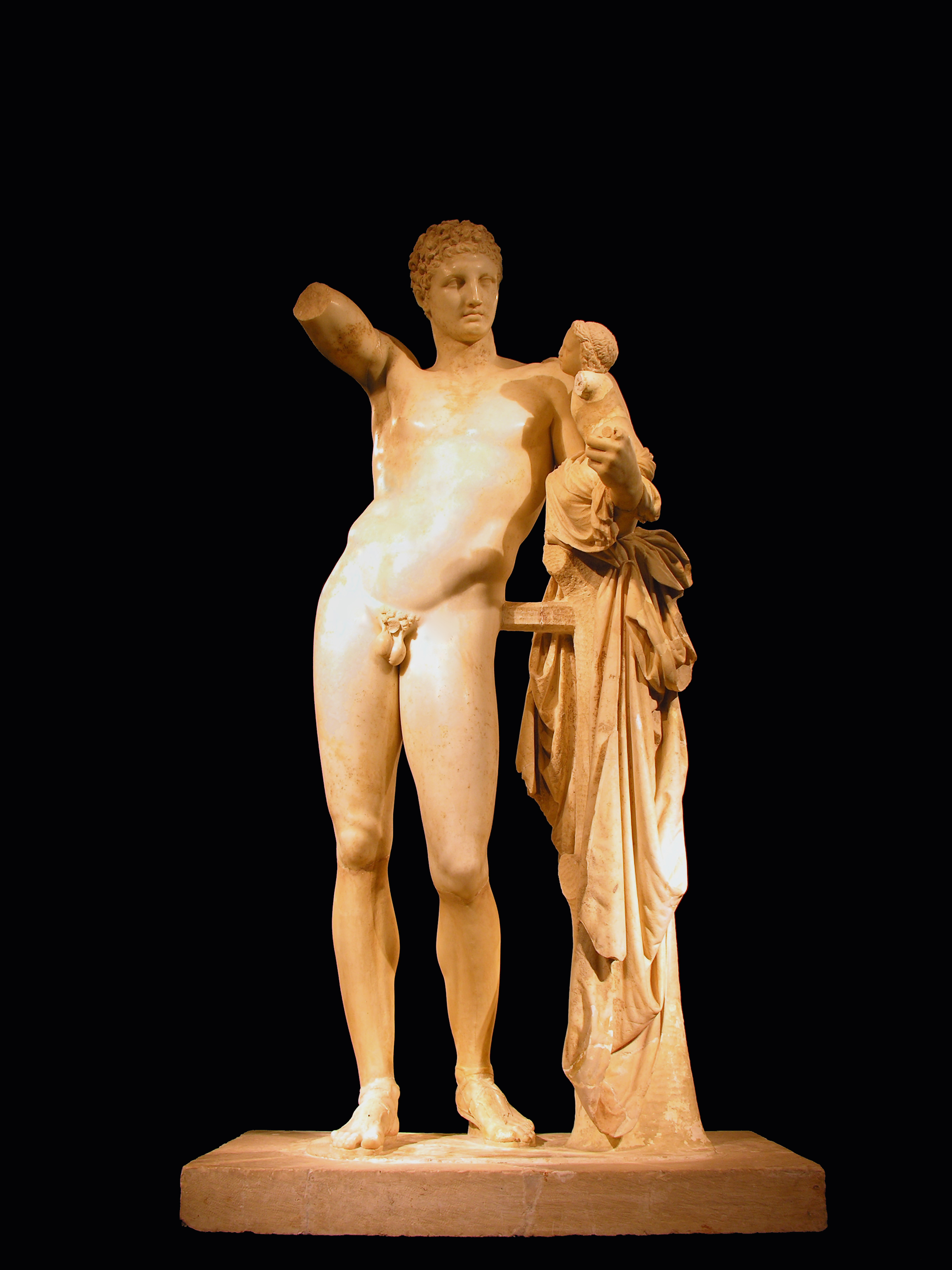 Hermes of Praxiteles (340-330 BC) Found at the temple of Hera in 1877. The messenger of the gods, charged by Zeus to take the infant Dionysos to the Nymphs, who were to nurse him, rests on the way having thrown his cloak over a tree trunk. In his raised right arm he was probably holding a bunch of grapes, a symbol associated with the future god of wine. Dionysos reaches out for it. Olympia, Greece